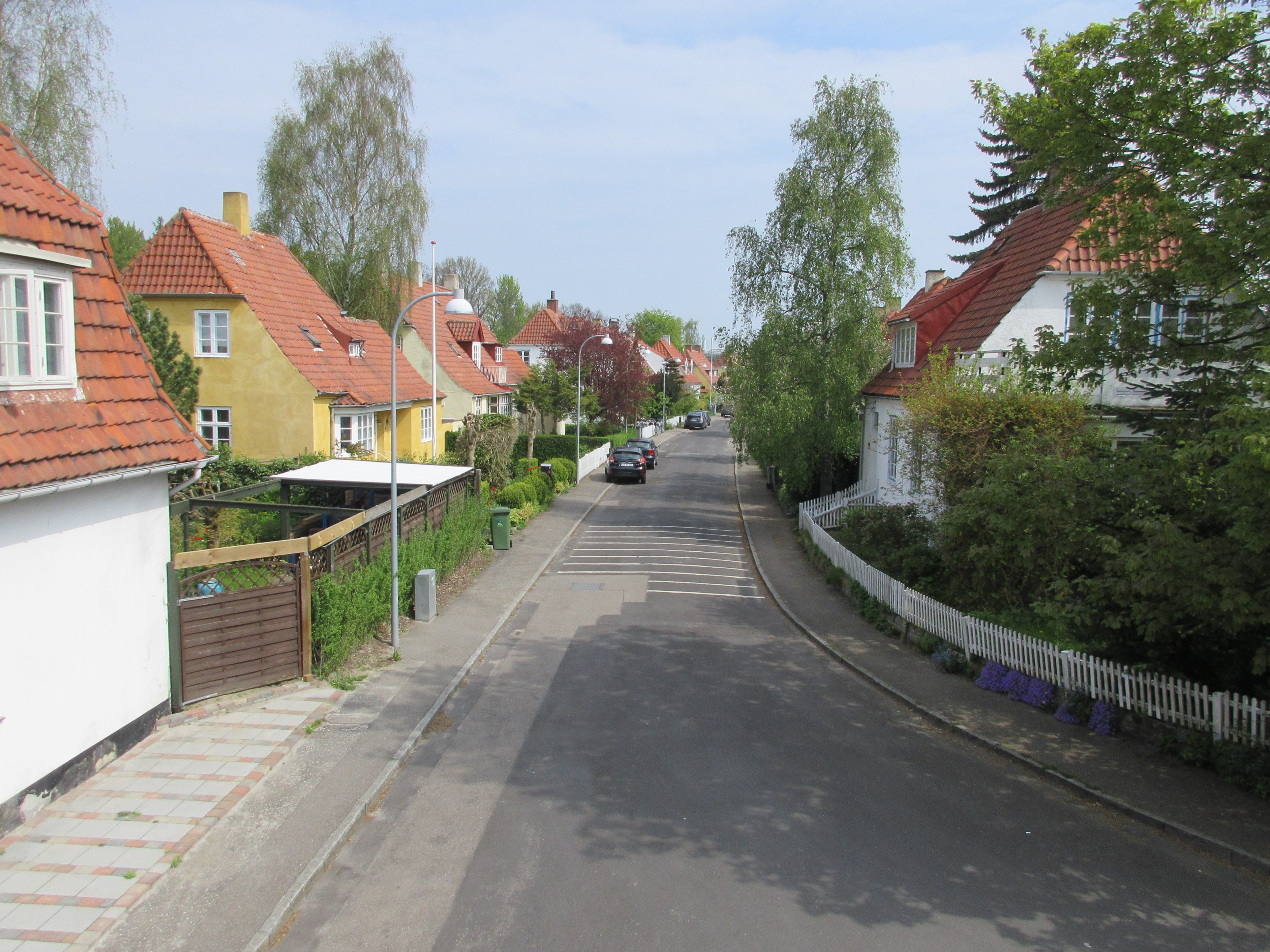 The street Ved Grænsen seen from Finsensvej in Frederiksberg, Copenhagen, Denmark. The houses are part of Frederiksberg Kommunale Funktionærers Boligforening.